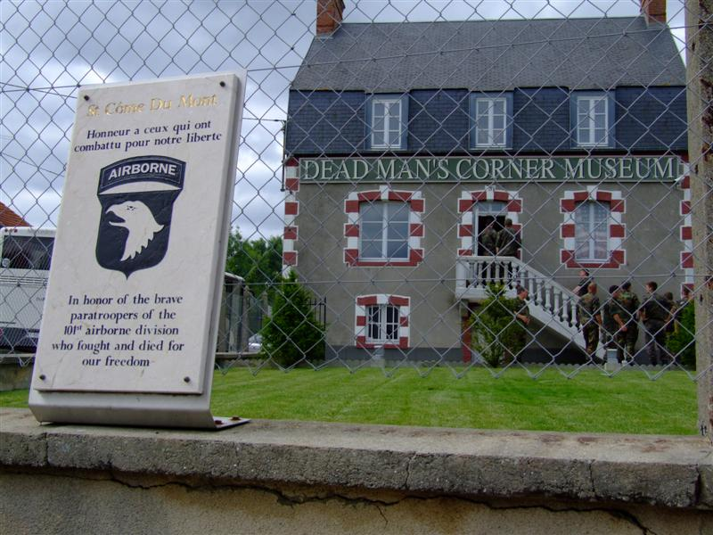 Dead Man's Corner